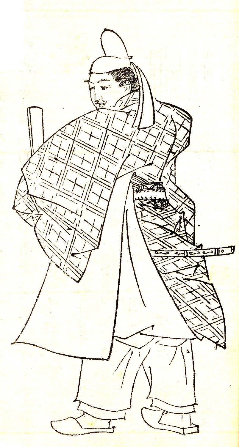 Ki no Haseo(紀長谷雄) was a court noble and a literary man in the Heian Period.This picture was drawn by Kikuchi Yosai（菊池容斎） who was a painter in Japan.